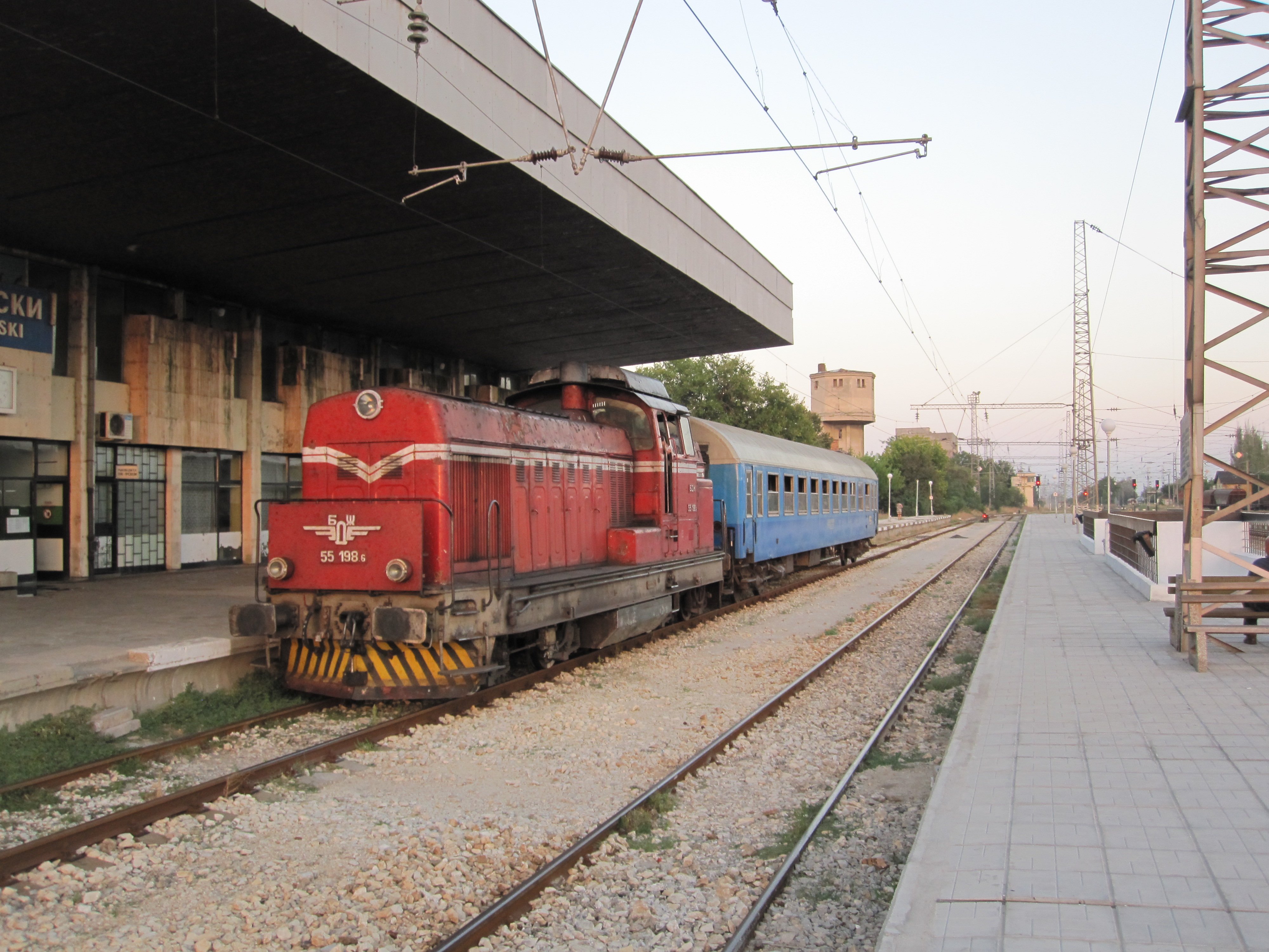 Bulgaria Trip Day Two 4 Desiro DMU sets are currently required to cover the branches around Levski. However, one (or more) are often out of service and loco haulage is brought in. Seen here is 55198 at Levski on train 24105, 18:05 Svishtov to Trojan. All rolling stock currently in Bulgaria was imported or purchased second hand from other European countries. Class 55s were built by FAUR in Romania and is the largest of any class on BDZ. Most workings are for short freights and shunting although they have regularly been used on passenger trains as seen here.